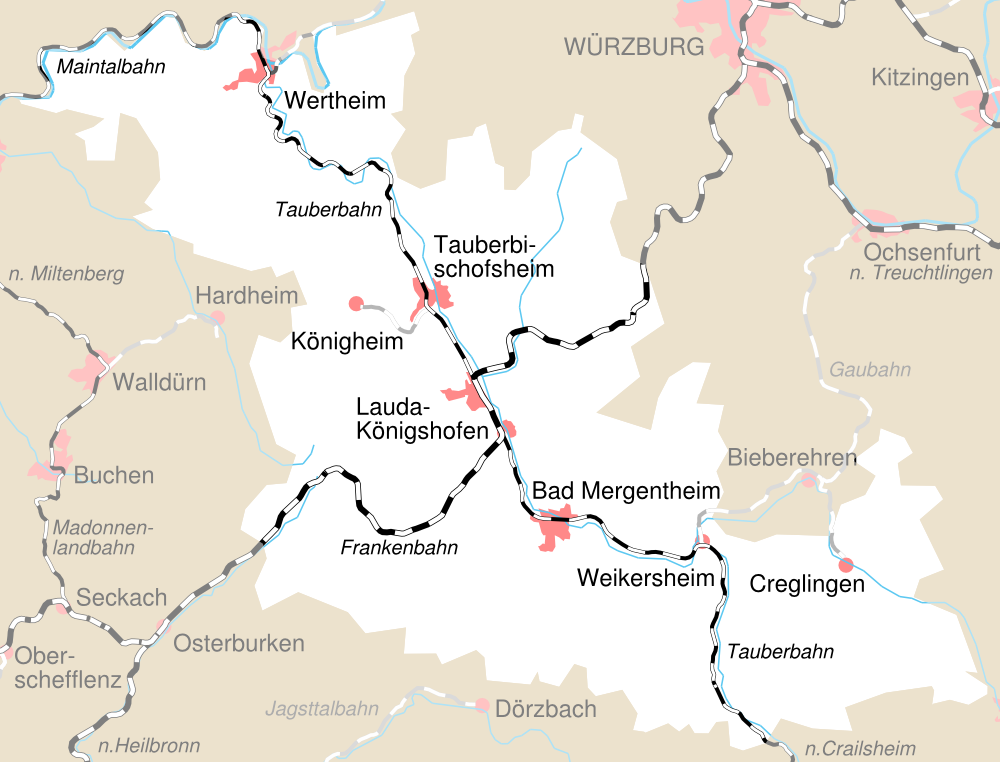 railway map of German Main-Tauber district. please see User:Kjunix/BahnNWB for comments.